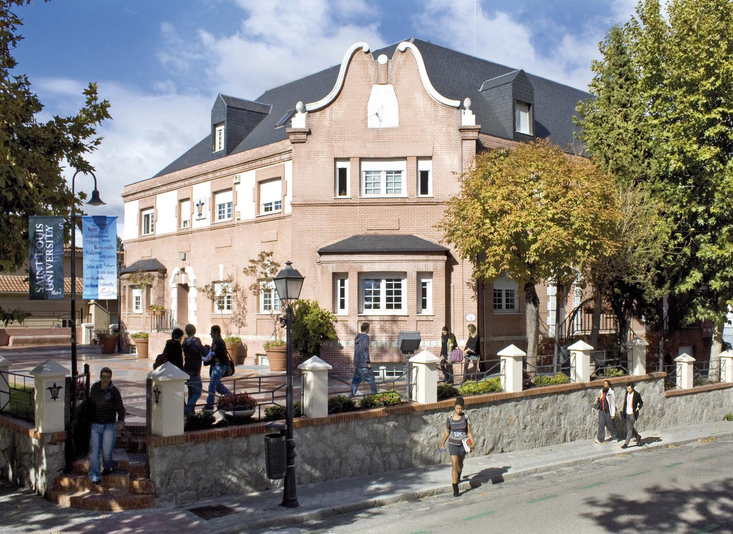 Façade of the Padre Arrupe Hall, the main building of Saint Louis University Madrid Campus